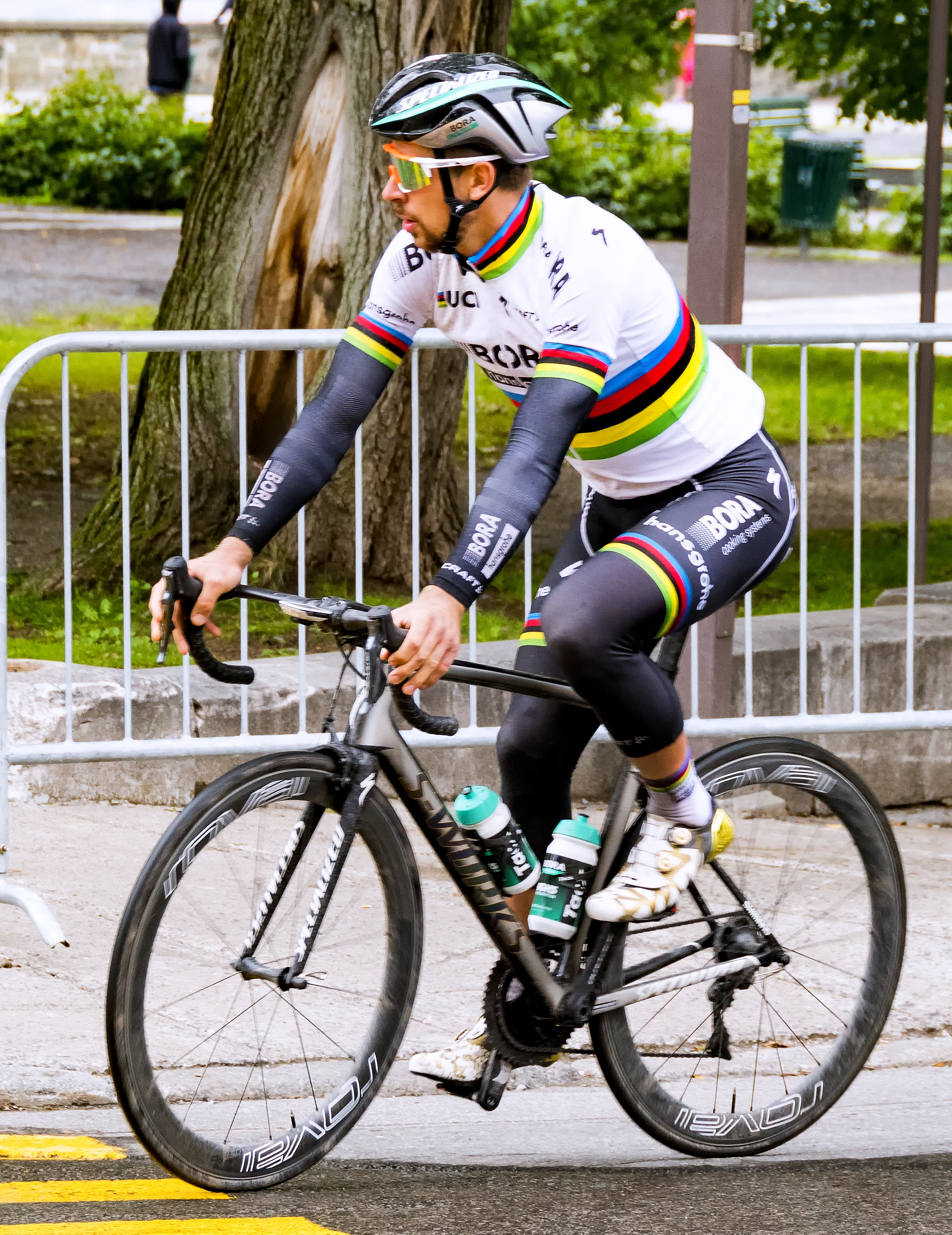 Peter Sagan training in Quebec City